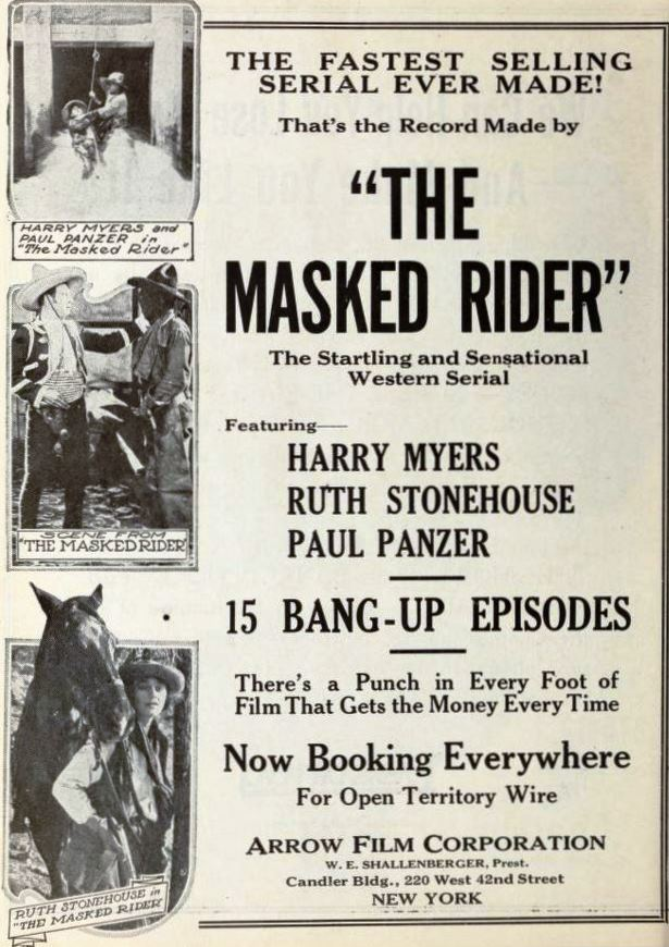 Advertisement for the American western film serial The Masked Rider (1919) with Ruth Stonehouse, Paul Panzer, and Harry Myers, on page 12 of the June 14, 1919 Exhibitors Herald.